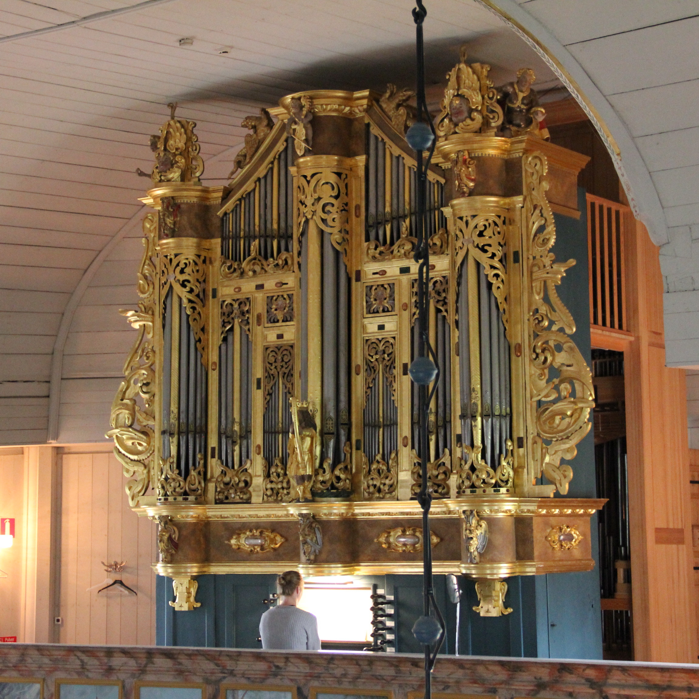 Övertorneå church, Övertorneå, Sweden. - Church organ, built originally in German Church, Stockholm in 1608. Rebuilt in Övertorneå church in 1780.